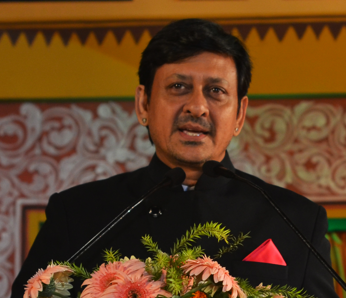 Siddhanta Mahapatra spaking during State Film Awards 2014 at Utkal Mandap, Bhubaneswar, Odisha.